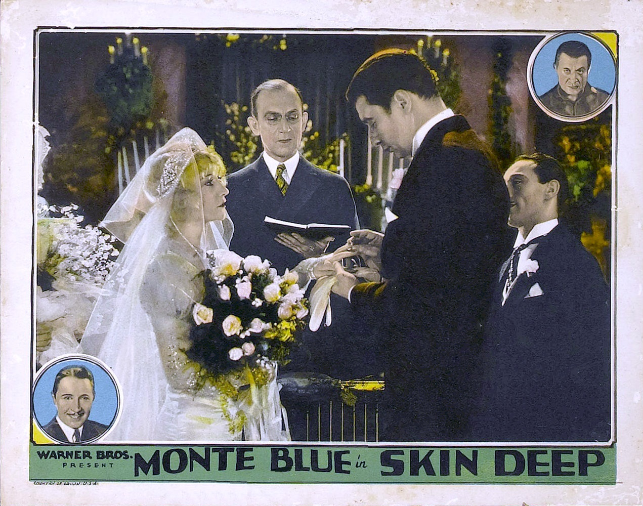 Lobby card for the American drama film Skin Deep (1929). There are no copyright marks on the card. At bottom left is Country of origin USA.